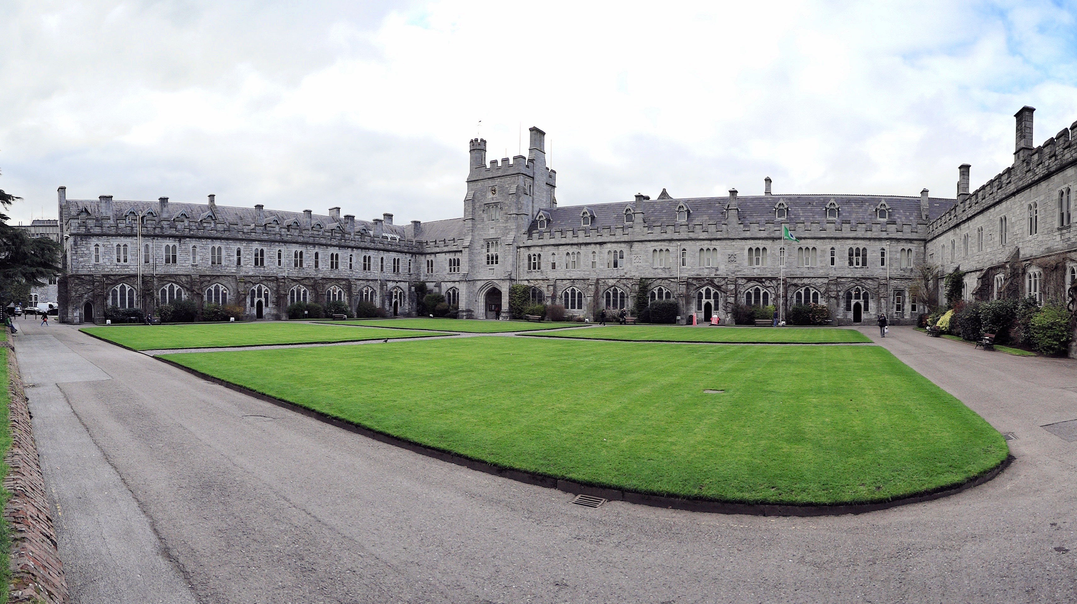 The Long Hall and the Clock Tower of the UCC quadrangle.